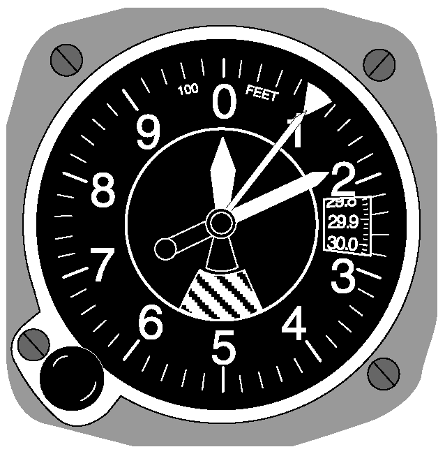 Source: Instrument Flying Handbook (IFH) FAA-H-8083-15. [Update 25 Nov 05]